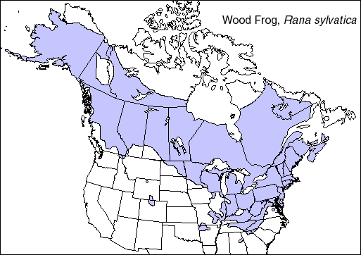 The range of Rana sylvatica.